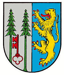 Coat of arms of Orbis